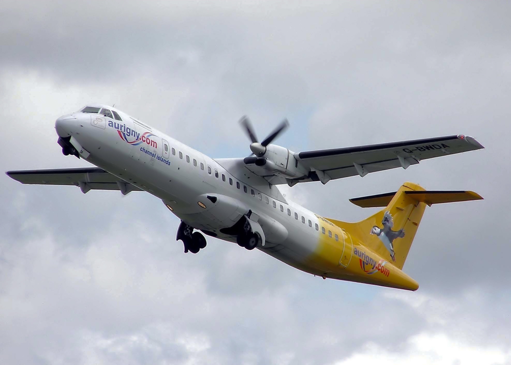 Aurigny Air Services ATR 72-200 (G-BWDA) taking off from Bristol International Airport, Bristol, England. Photographed by Adrian Pingstone on June 30th 2006 and released to the public domain.